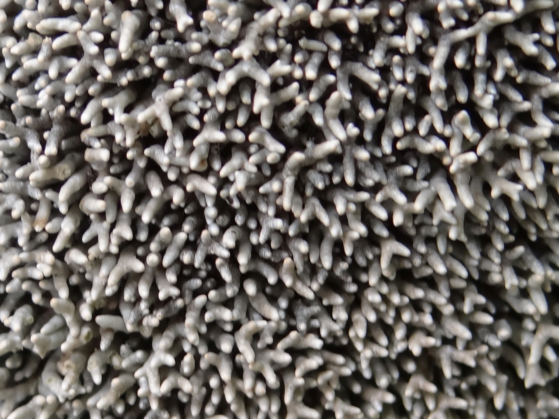 Sphaerophorus fragilis (location: Slovakia, Nízke Tatry, Tanečnica)